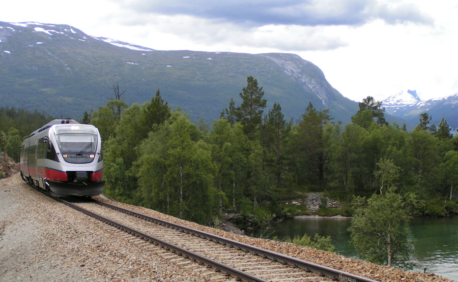 BCM 93.57 near Bjorli, Raumabanen, Norway